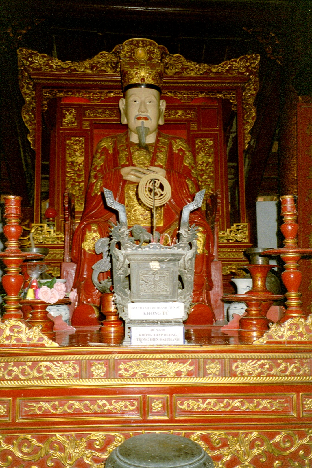 Altar to Confucius in the Văn Miếu (Temple of literature), Hanoi, Vietnam